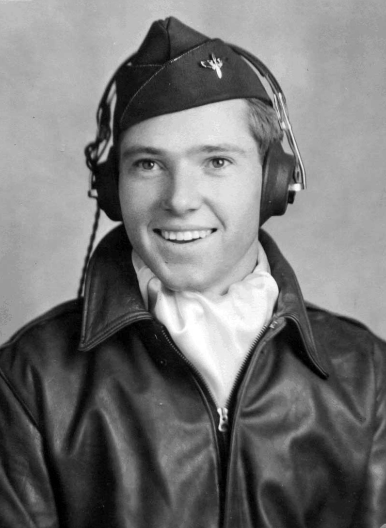 Lieutenant John Billings